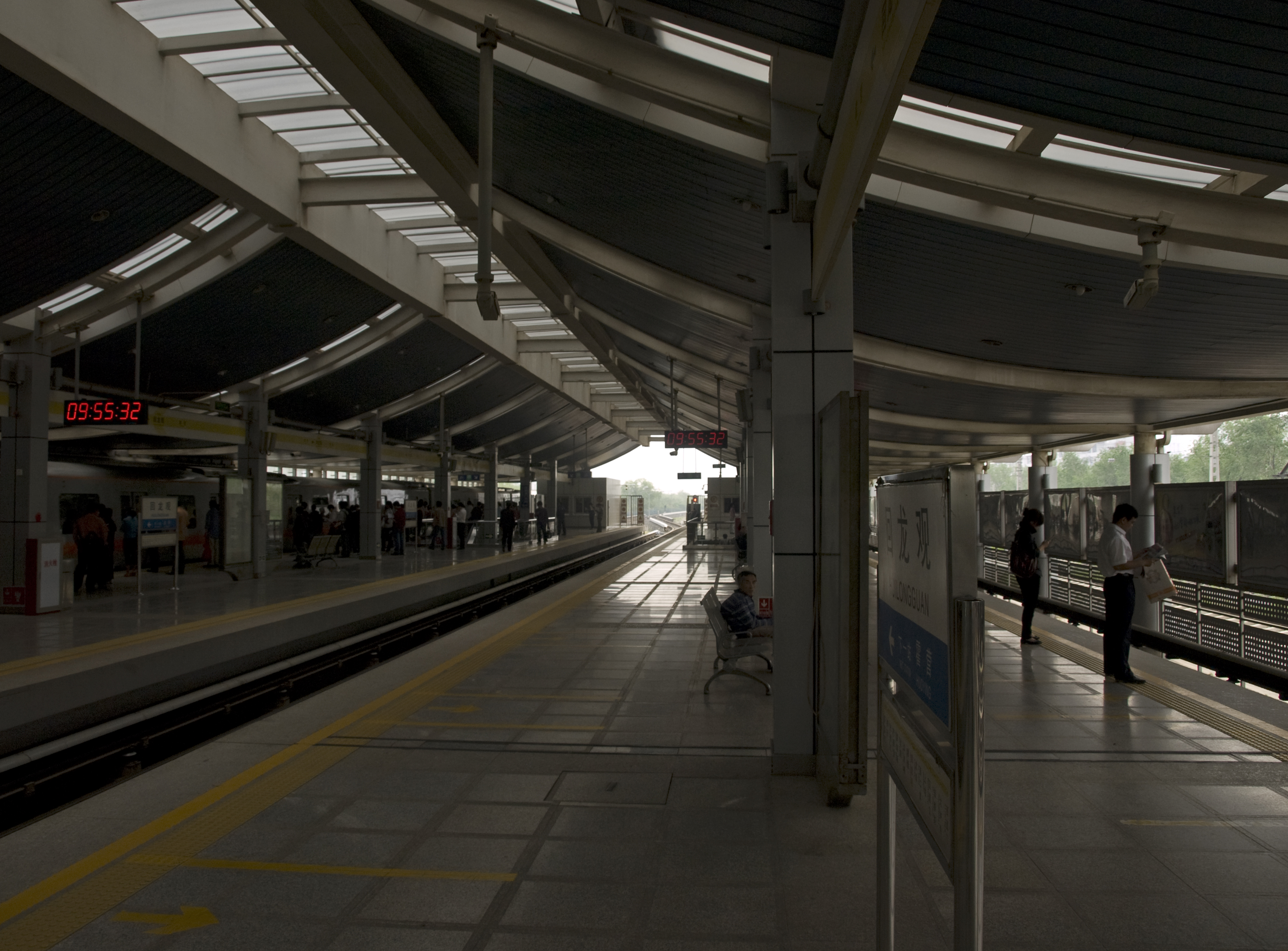 Huilongguan station, Beijing Subway